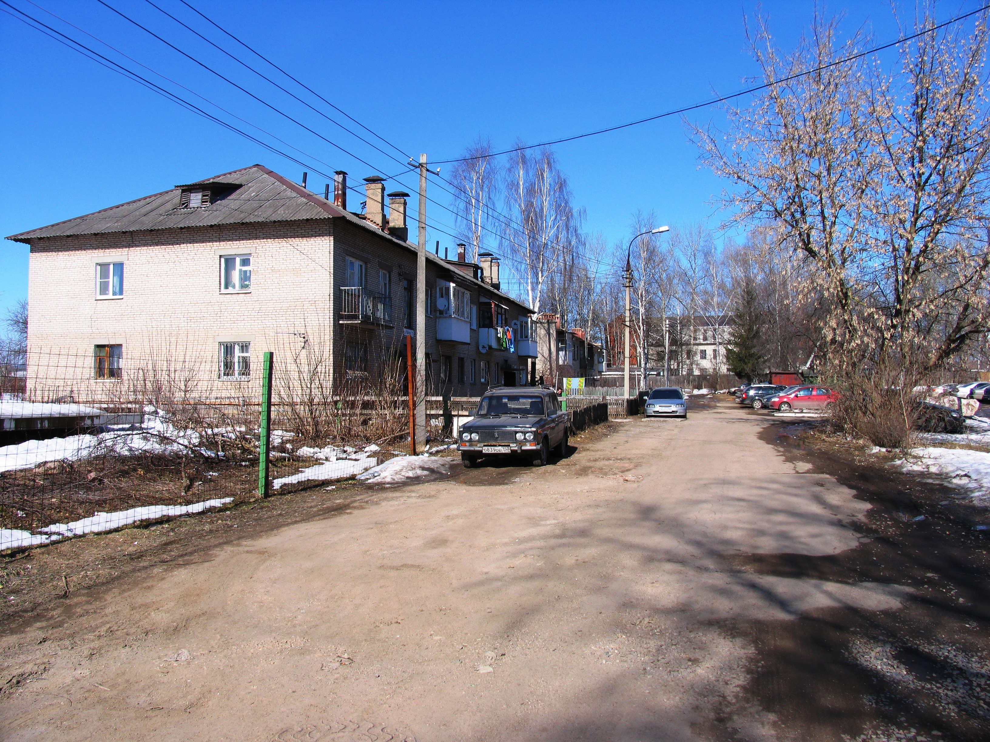 Amerevo — microdistrict of the city of Shchelkovo, Moscow Region, Building 11, Work Street.